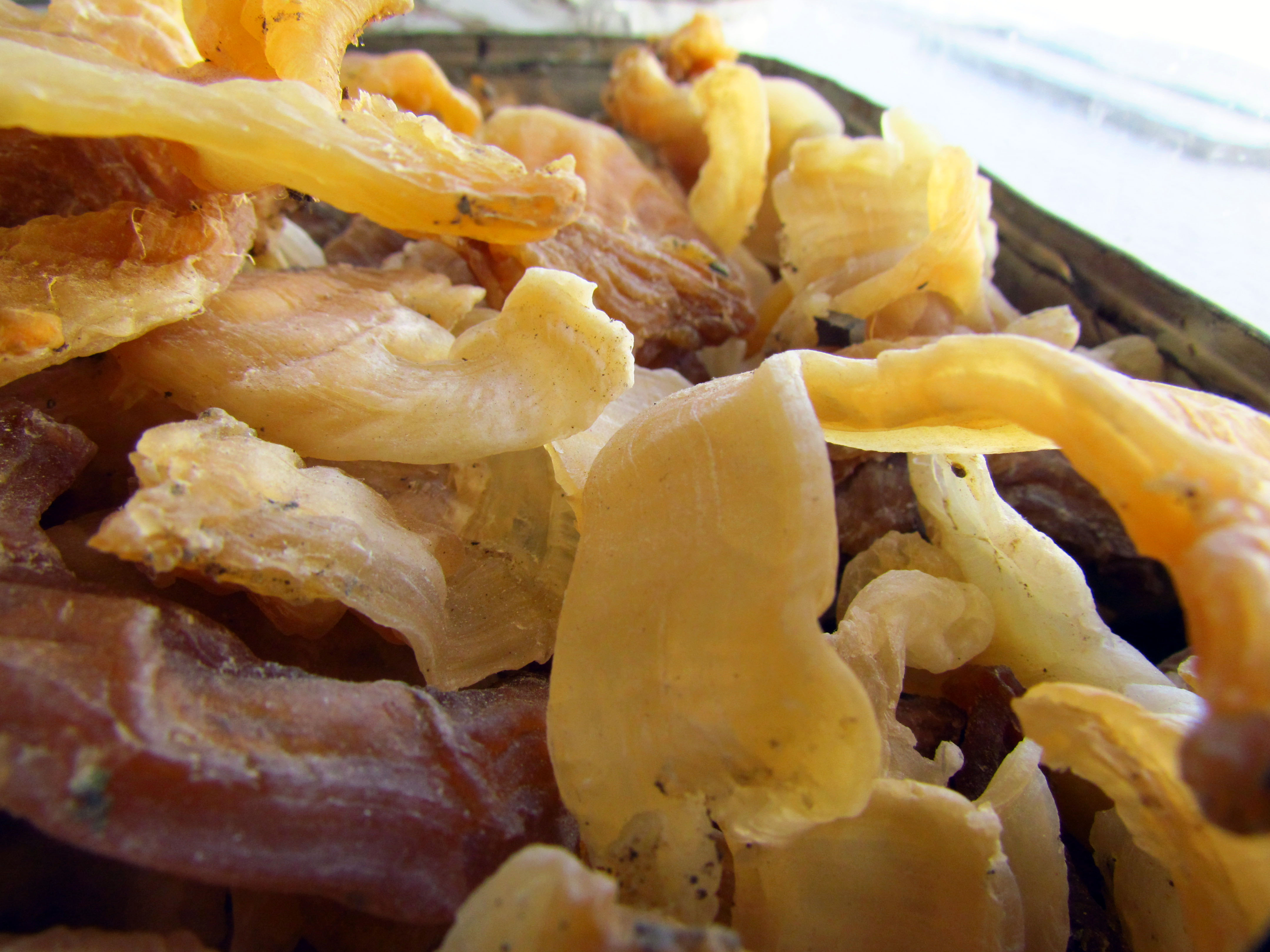 Tragacanth